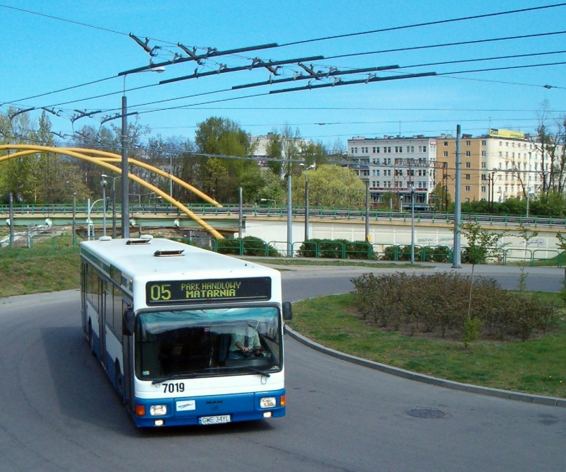 MAN NL 202 bus (#7019) in Gdynia, Poland. Built 1992, Ornowski Travel Rumia operator.